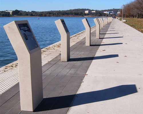 Category:Images of Canberra The Australian of the Year Walk is on the southern shore of Lake Burley Griffin in Canberra, the capital city of Australia. I took this picture on 21 May 2006. Peter Ellis 11:12, 21 May 2006 (UTC)